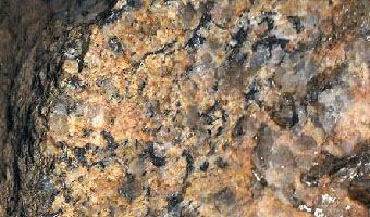 Granite, from Smrekovica, Veľká Fatra Mountains, Slovakia